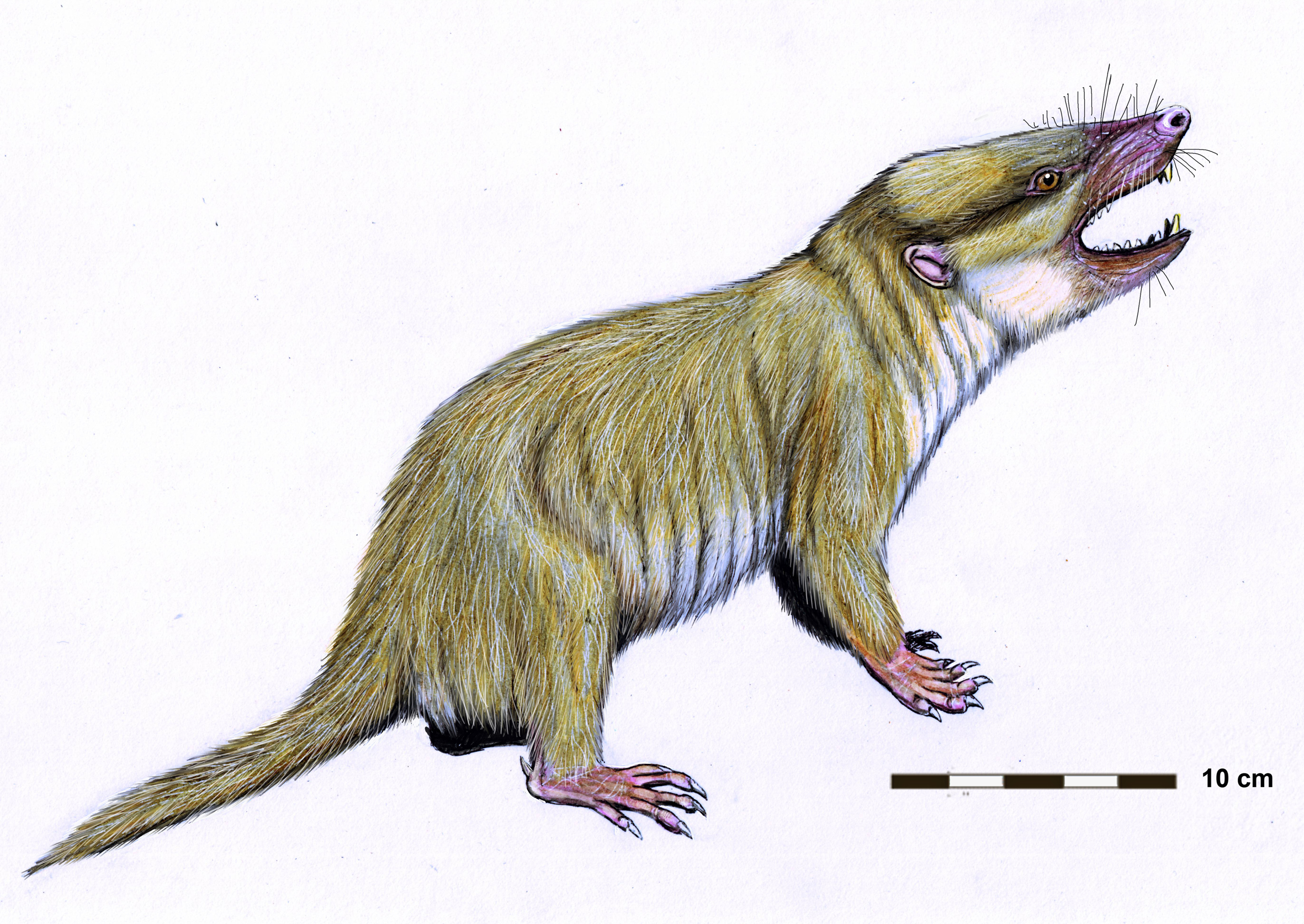 Gobiconodon, primitive Early Cretaceous mammal from Asia and North America.